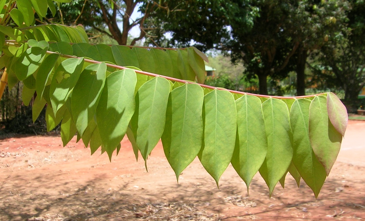 Phyllanthus acidus twig from Karnataka India